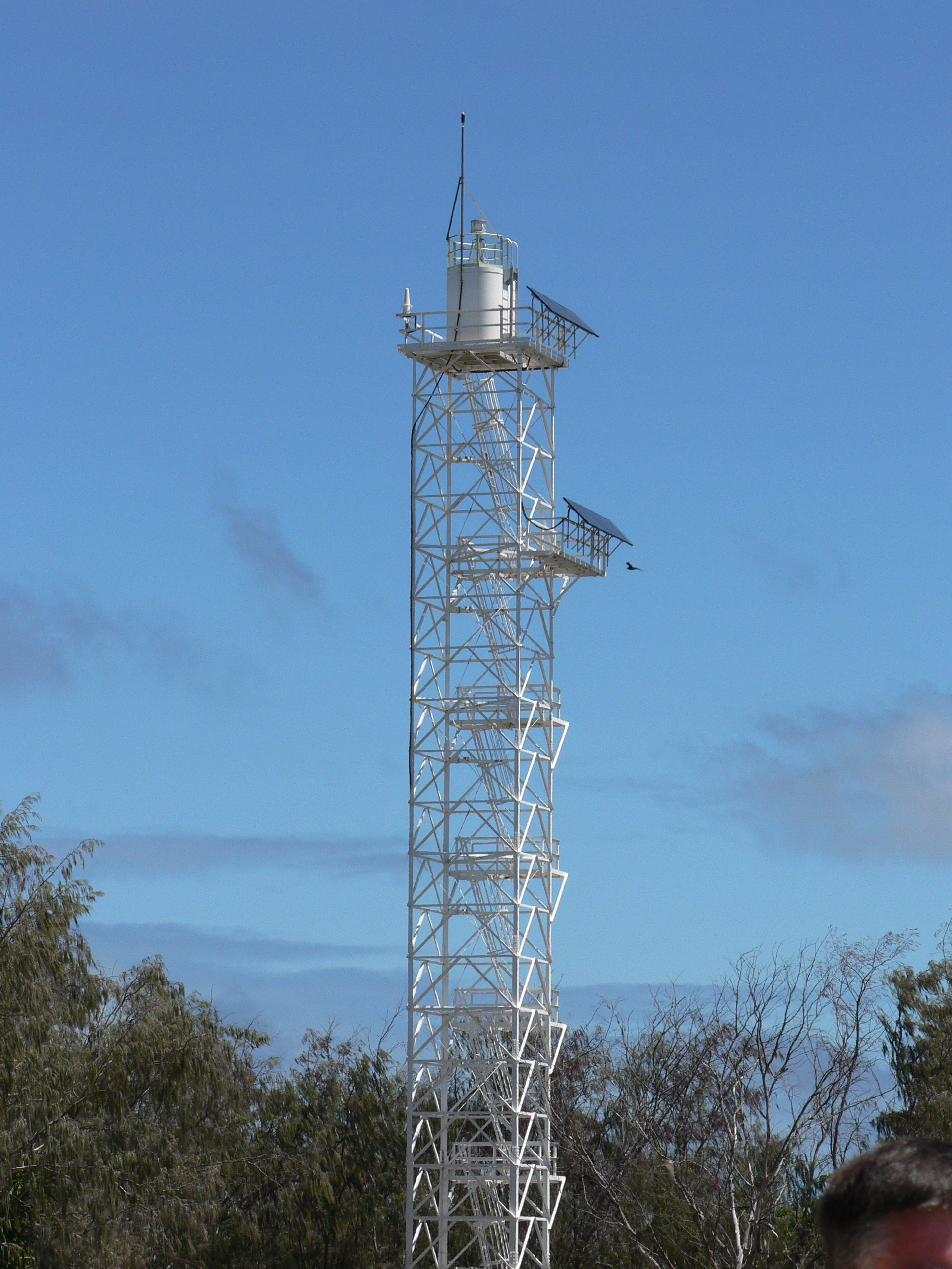 The new lighthouse on Lady Elliot Island